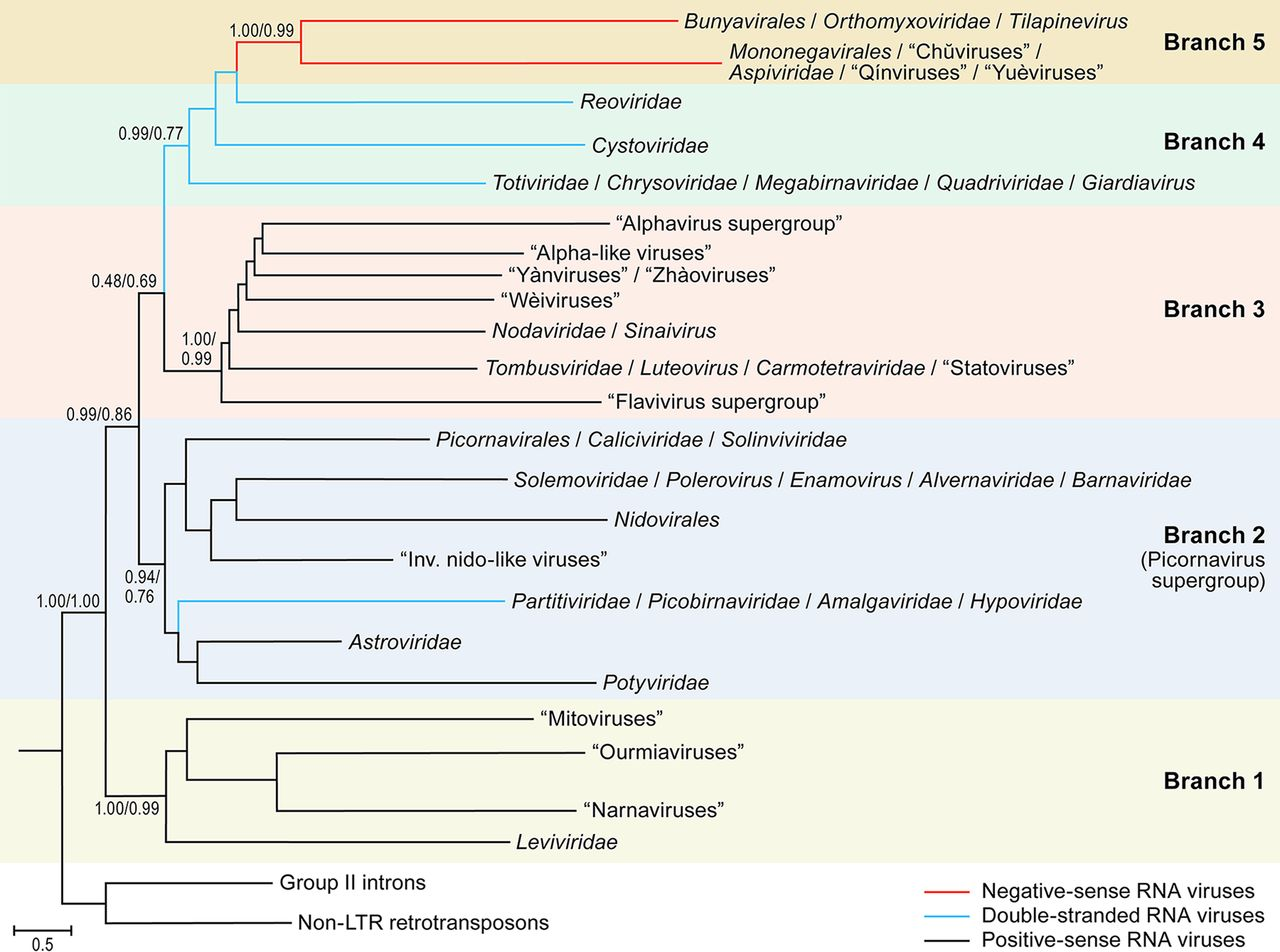 Phylogeny of RNA virus RNA-dependent RNA polymerases (RdRps) and reverse transcriptases (RTs): the main branches (branches 1 to 5). Each branch represents collapsed sequences of the corresponding set of RdRps. The 5 main branches discussed in the text are labeled accordingly. The bootstrap support values obtained by the indicated numerator/denominator calculations are shown for each internal branch. LTR, long-terminal repeat.